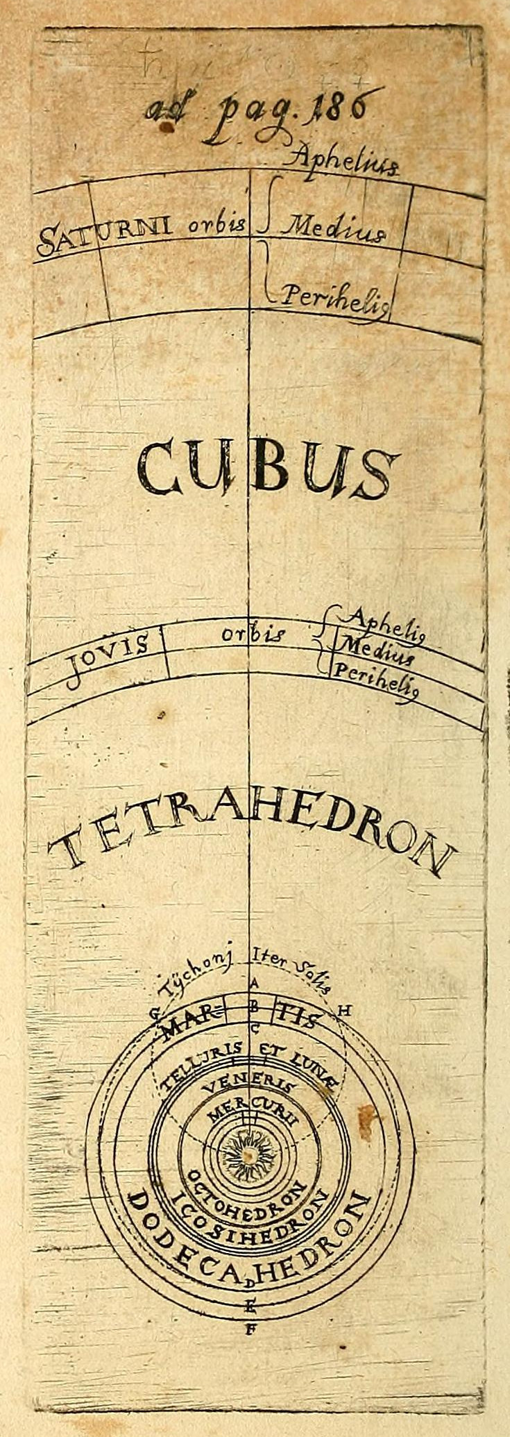 Page from Harmonices Mundi by Johannes Kepler